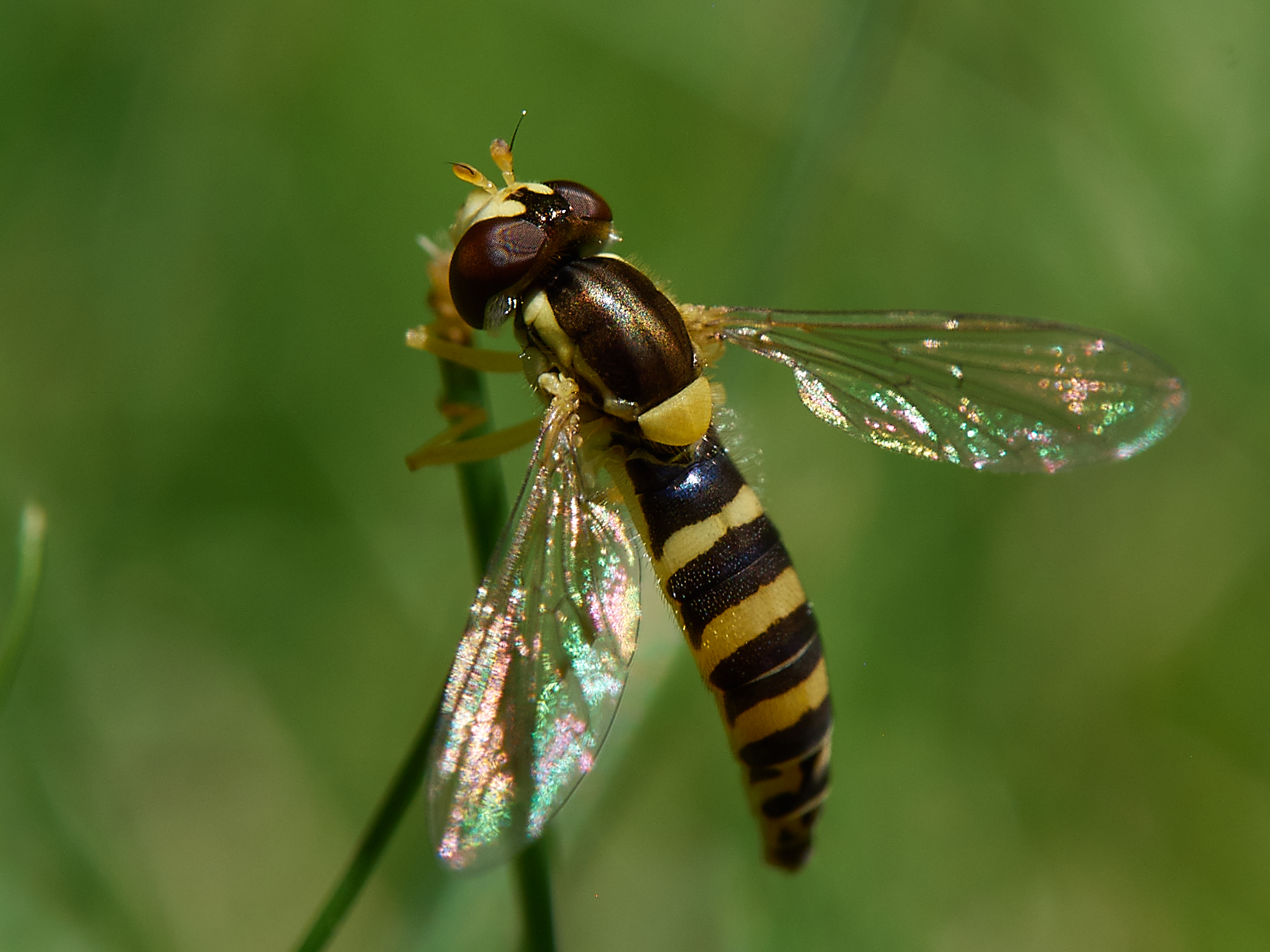 Hoverfly (Sphaerophoria scripta, fem.) in a garden, length: 7 mm